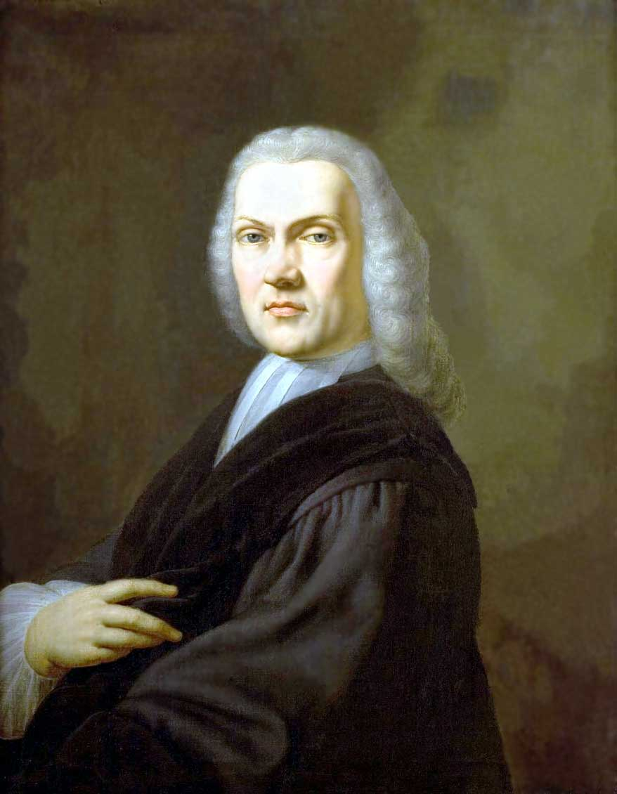 Andreas Weiß also: Weis, Weiss, Weyssius; (1713-1792) Switzerland Lawyer